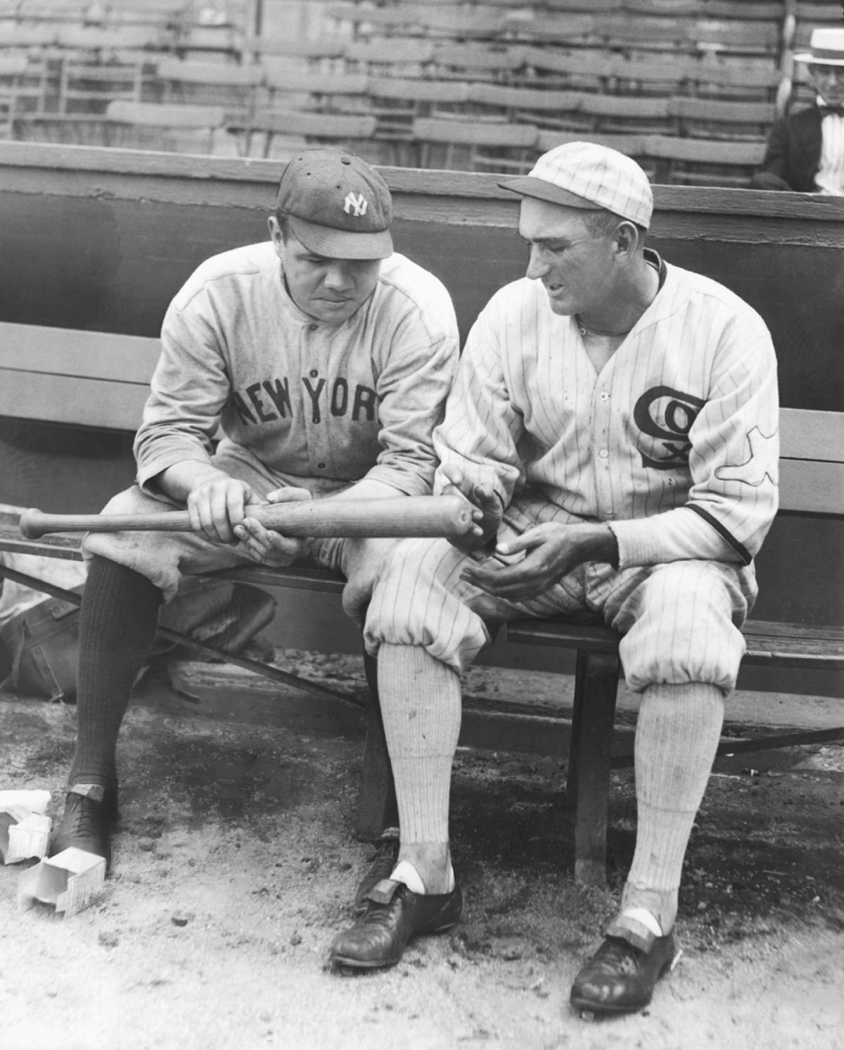 Shoeless Joe Jackson (r.) of the Chicago White Sox and the New York Yankees' Babe Ruth look at one of Babe's home run bats in 1920.